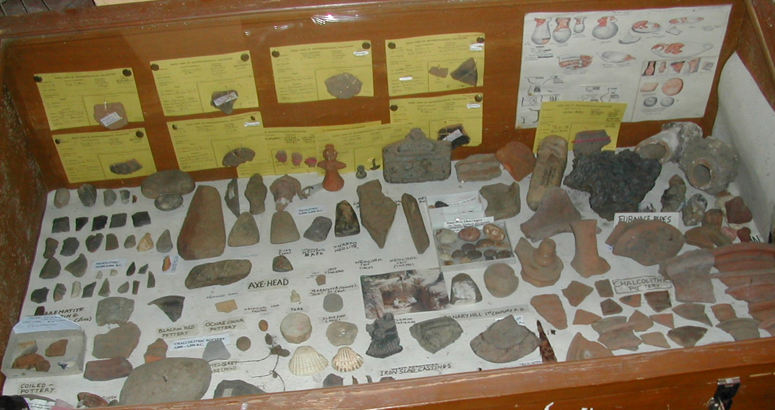 Cabinet2